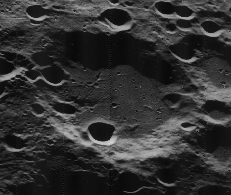 Oblique view of Parenago, on the far side of the moon, facing west.